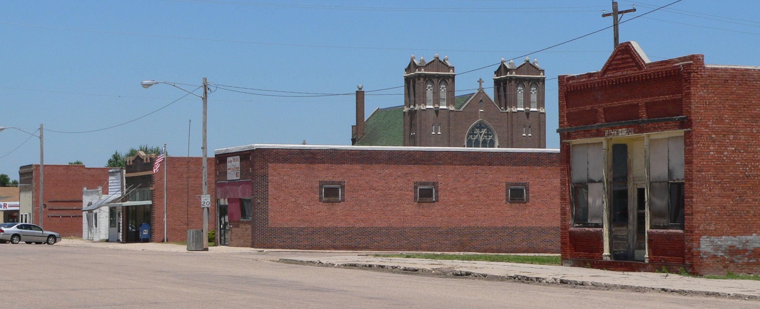 Downtown Lawrence, Nebraska: east side of Calvert Street, looking northeast.